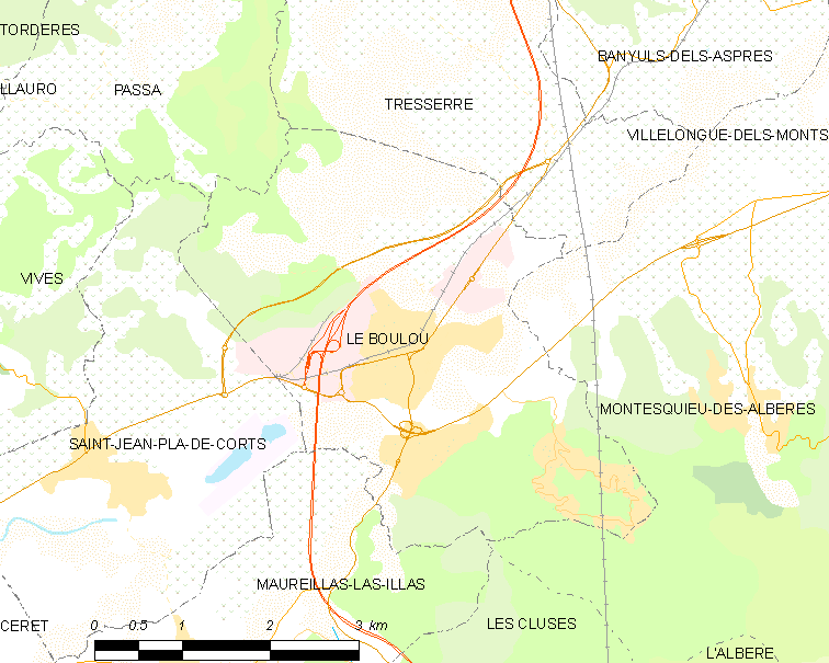 Map of French municipality